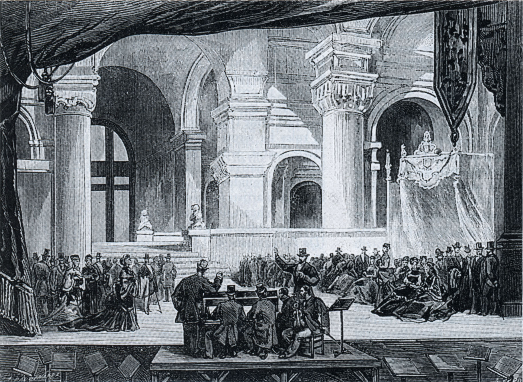 Rehearsal for the revival of Hamlet by Ambroise Thomas (31 March 1875) at the Paris Opera (Salle Garnier). Engraving, Le monde illustré, 10 April 1875.